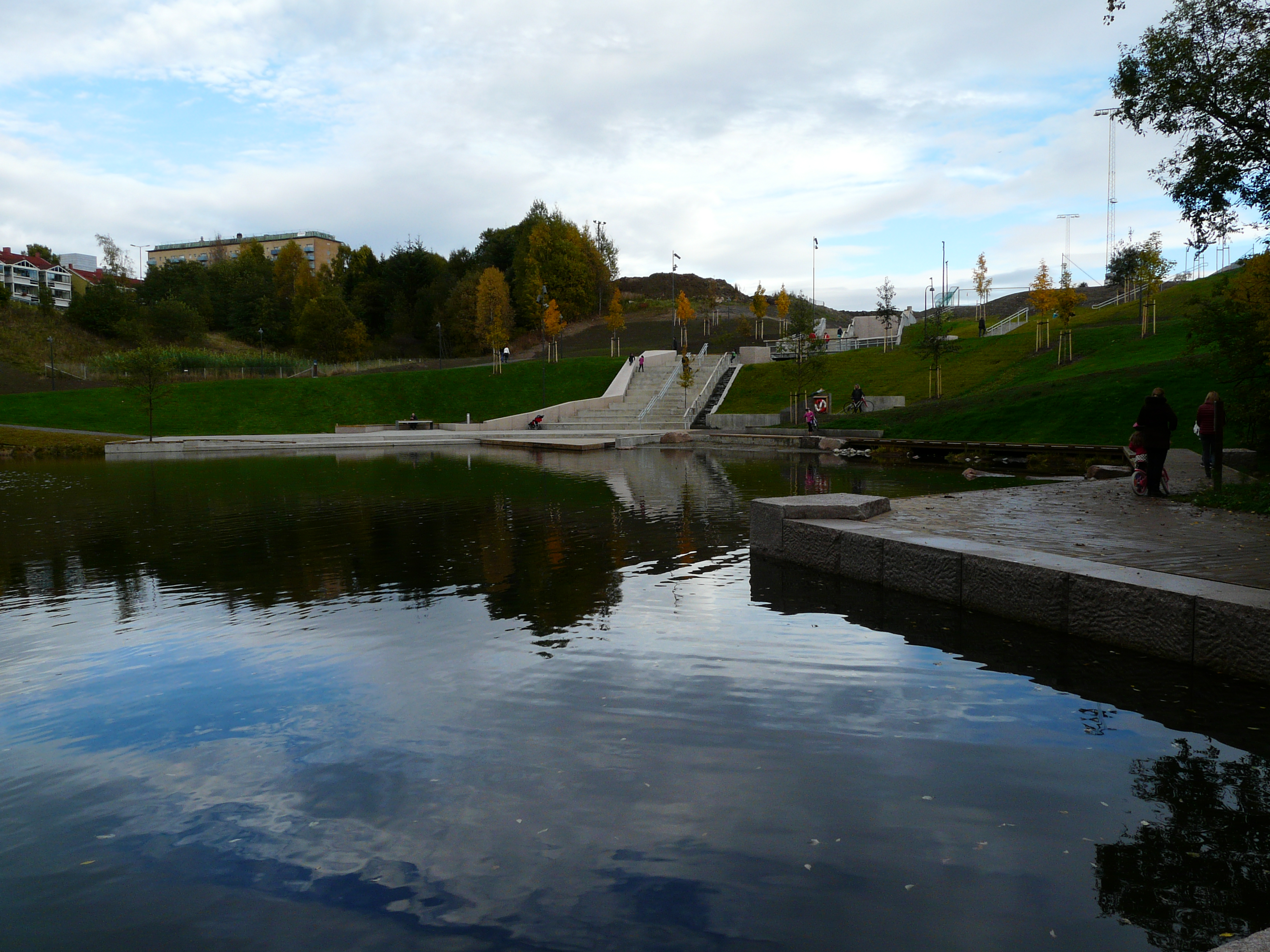 Groruddammen and the park.